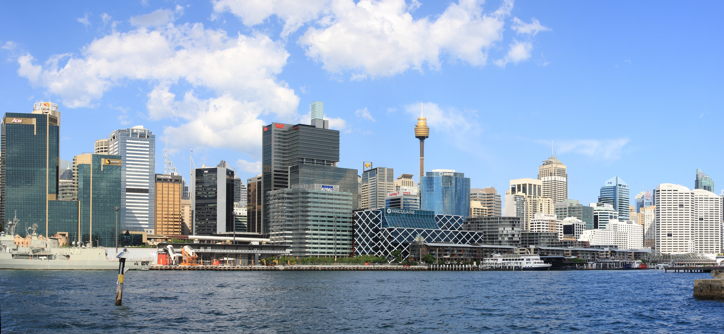 another picture of Sydney. Slightly different to my previous upload. It may be a little clearer than the other as well.